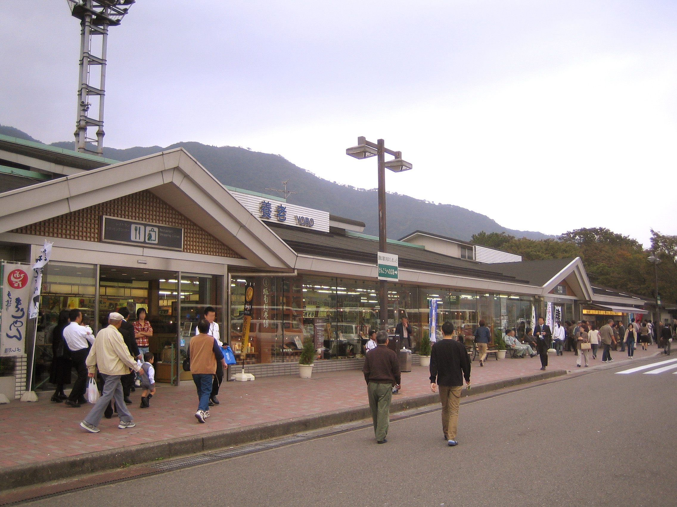 Togo Service Area (養老サービスエリア), at Yoro, Gifu, Japan